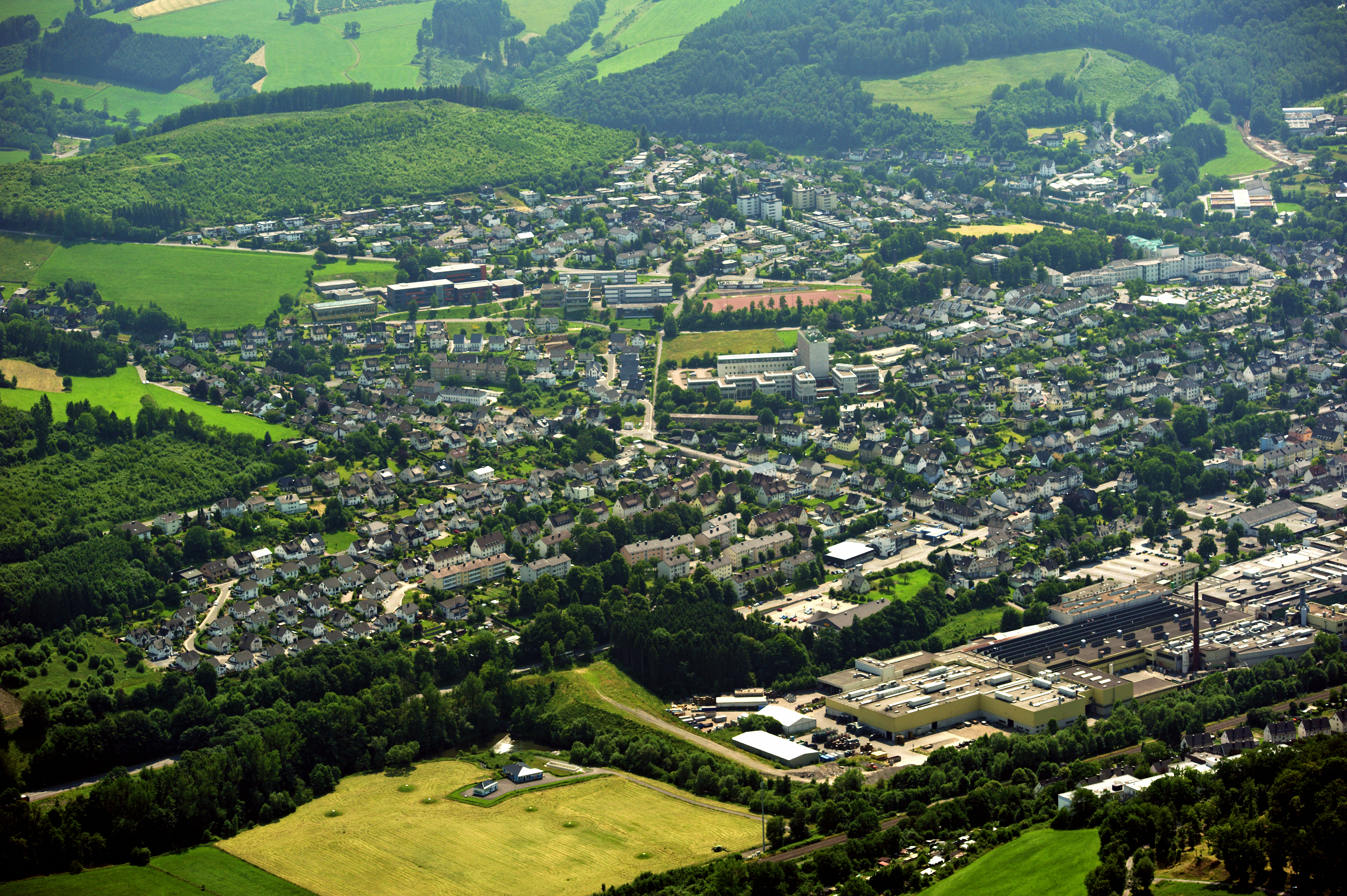 Fotoflug Sauerland-Ost – Meschede The making of this document was supported by the Community-Budget of Wikimedia Germany.